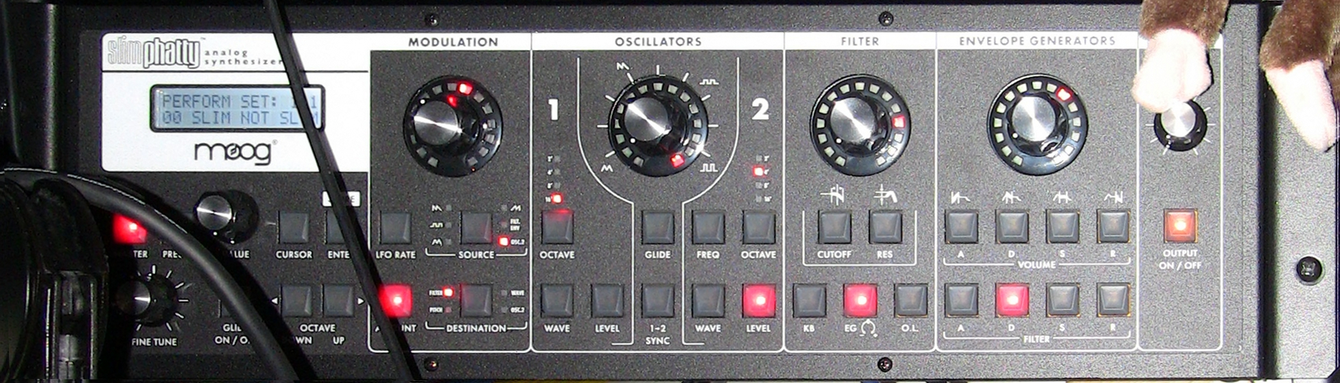 Moog Slim Phatty “Oberheim Matrix-6R teardown and repair. Working (except for display issue) and in my rack.” —Pete Brown